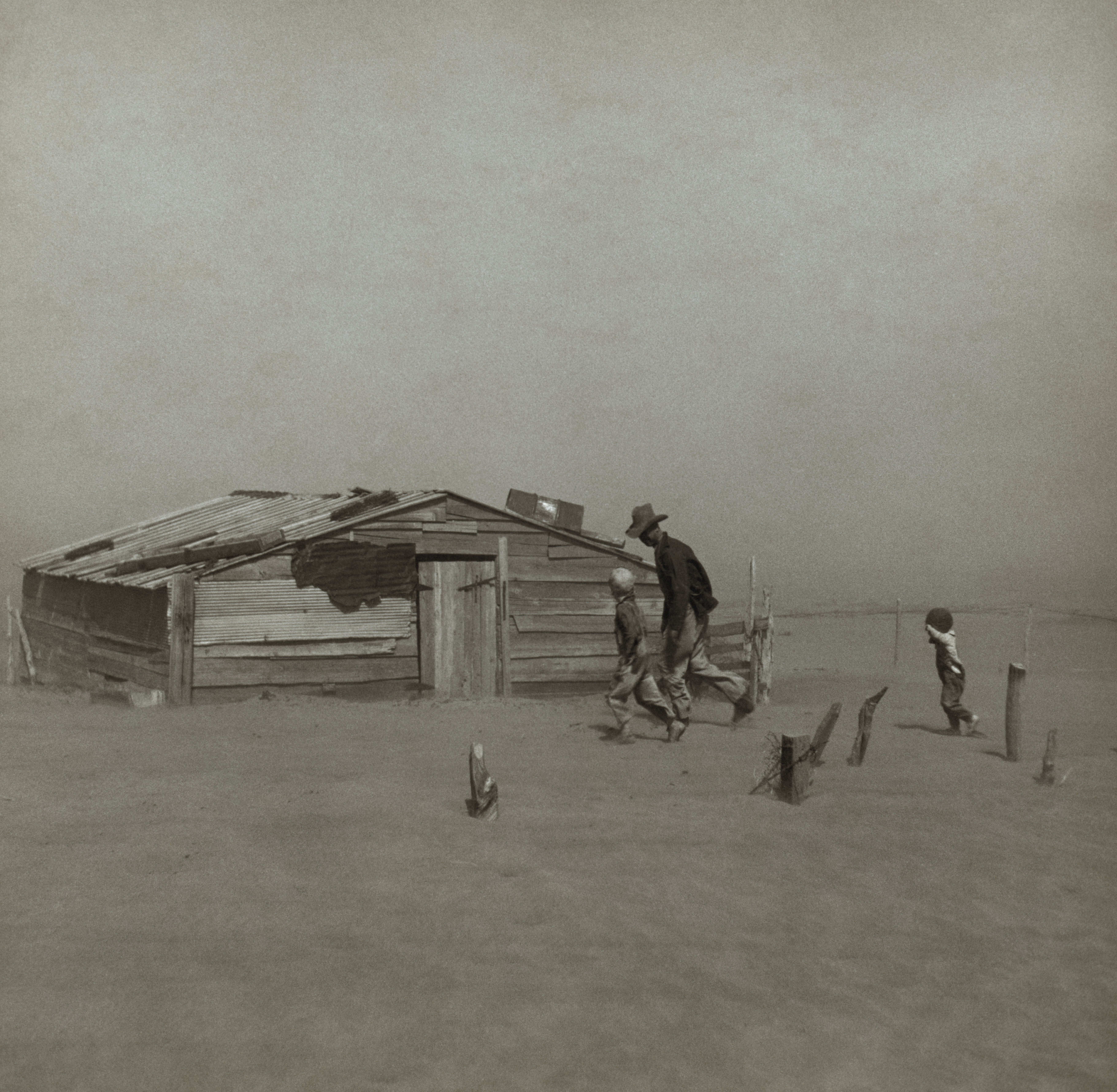 Farmer and sons walking in the face of a dust storm. Cimarron County, Oklahoma, USA